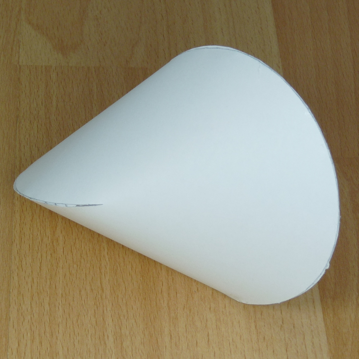 oloid made of paper